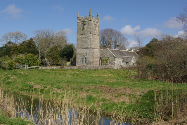 St Erth Church St Erth was an Irish saint, said to have been an acquaintance of St Patrick. His remains are supposedly buried under this church, seen here from across the River Hayle.